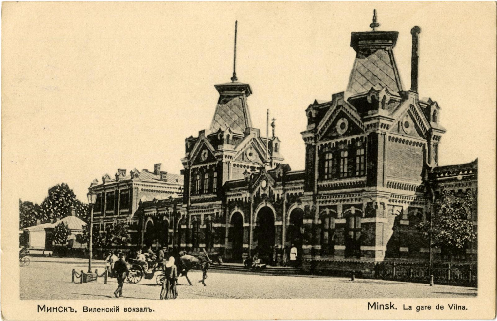 Vilensky railway station in Minsk, Russian Empire (now Belarus)